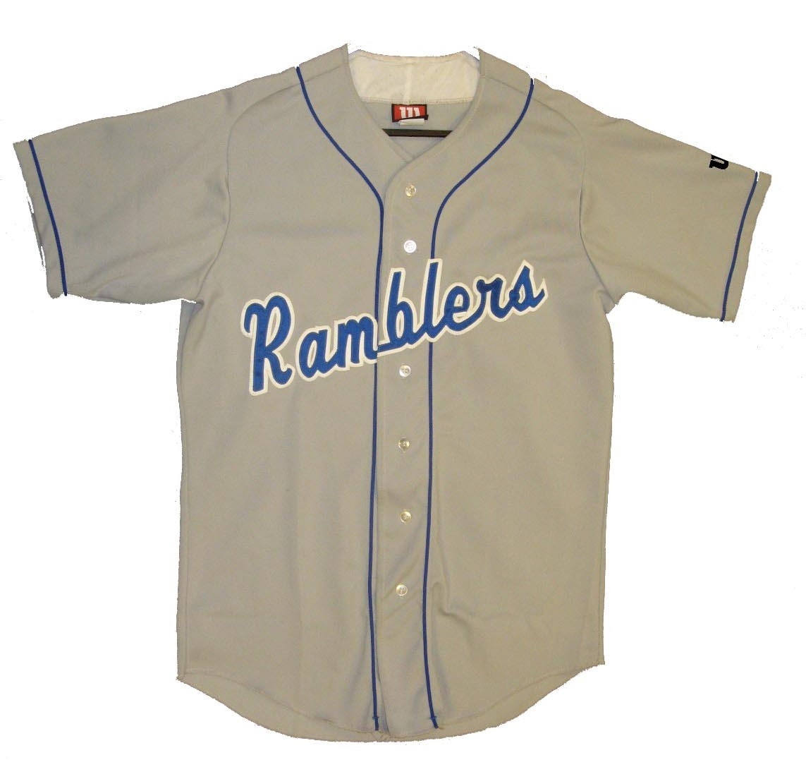 The Midnight Ramblers jersey, front view. Cropped from another version of the same image available on Wikimedia Commons.